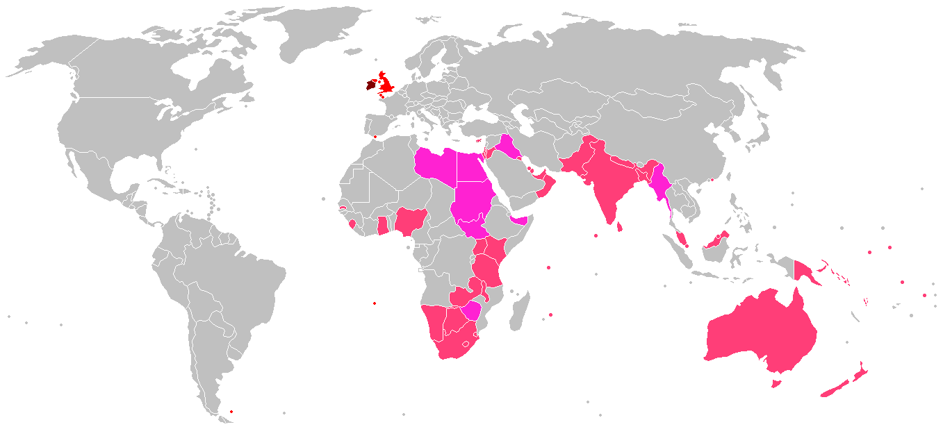 The sterling area or sterling zone refers to a group of countries, often dominions and colonies of the former British Empire (and Commonwealth), which either use the pound sterling as their currency, or peg their respective currencies to the British pound. Key Red - current sterling zone, as of 2007 Deep red - left after 1972 (only Ireland) Dark pink - left in 1972 Light pink - left before 1972